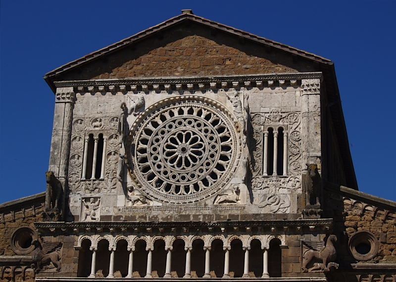 The rose window and the loggetta of the church of St. Peter in Tuscania.